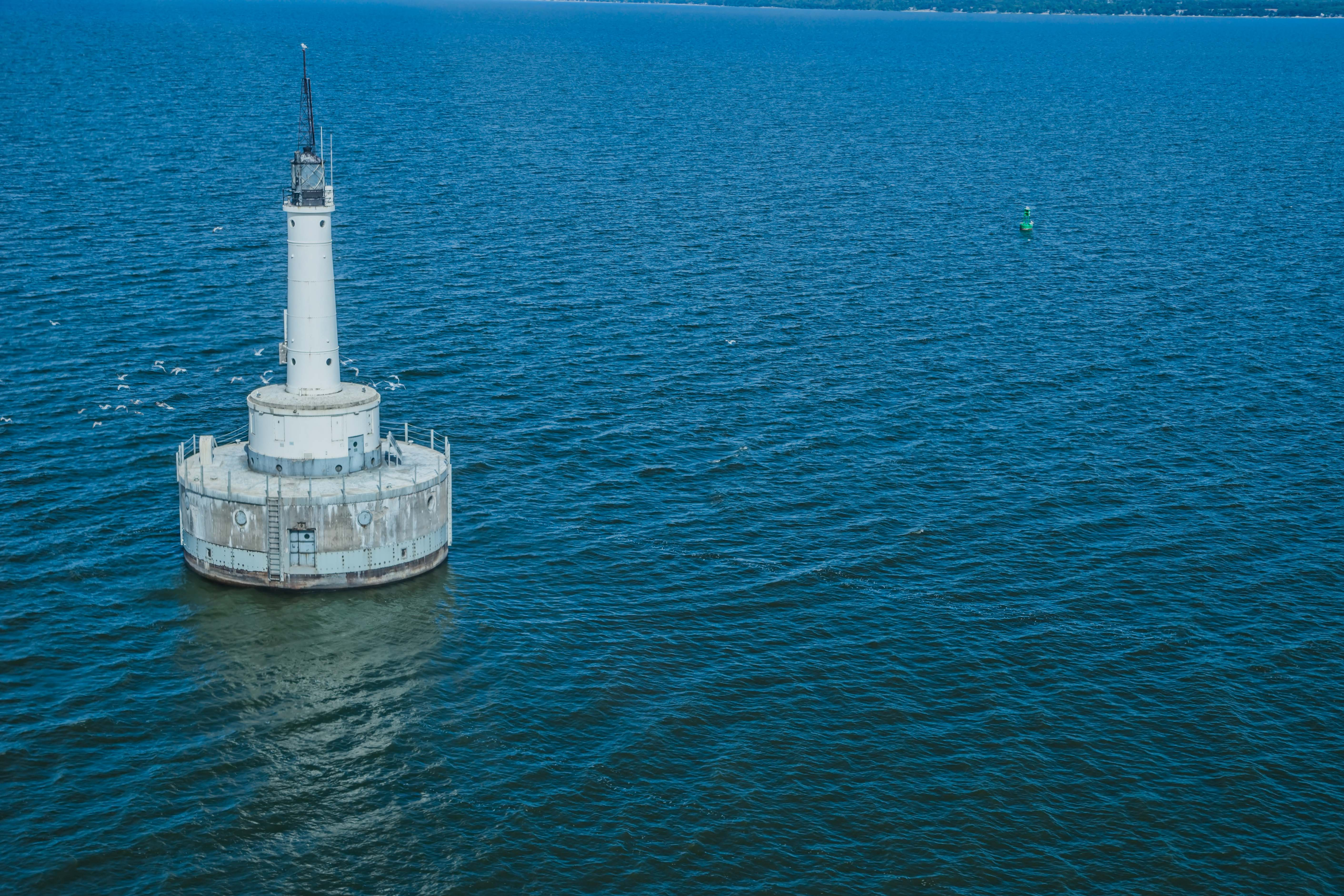 View of the Green Bay Harbor Entrance Light from a helicopter — in Green Bay, Brown County, Wisconsin.